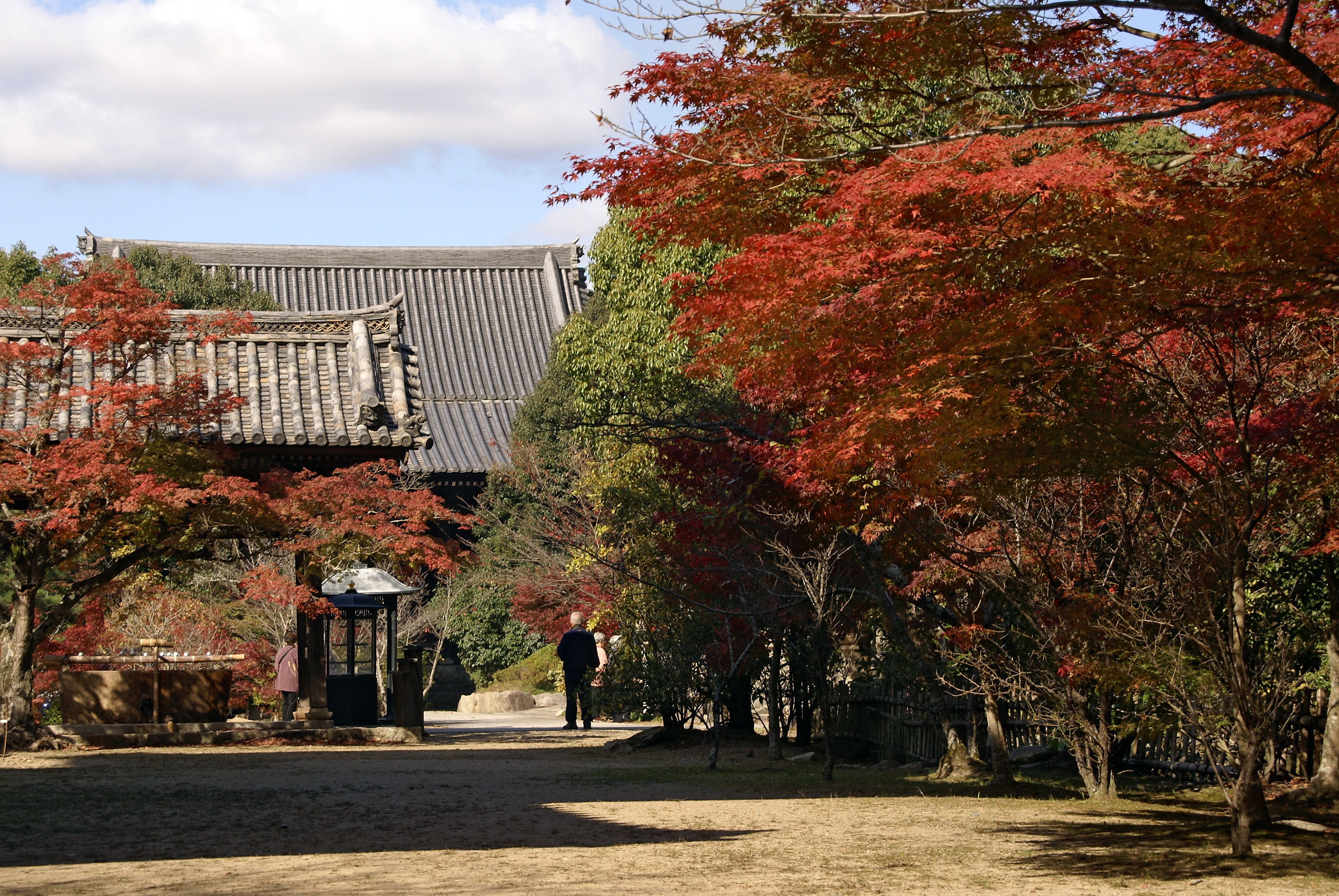 Taisanji Buddhist temple in Kobe, Hyogo prefecture, Japan Opening in 716. This photograph is the Amida-do. It was built in 1688.